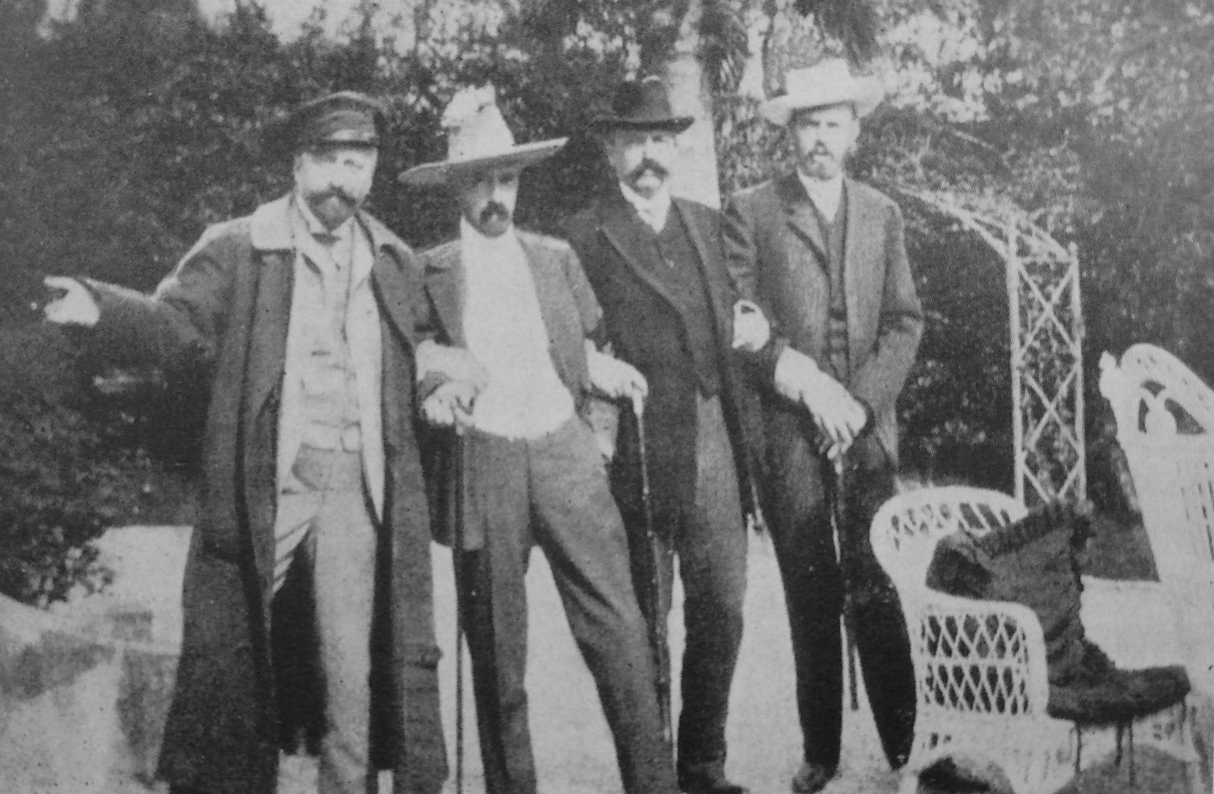 Grand Duke Sergei Mikhailovich of Russia and his brothers Nicholas, Michael and George